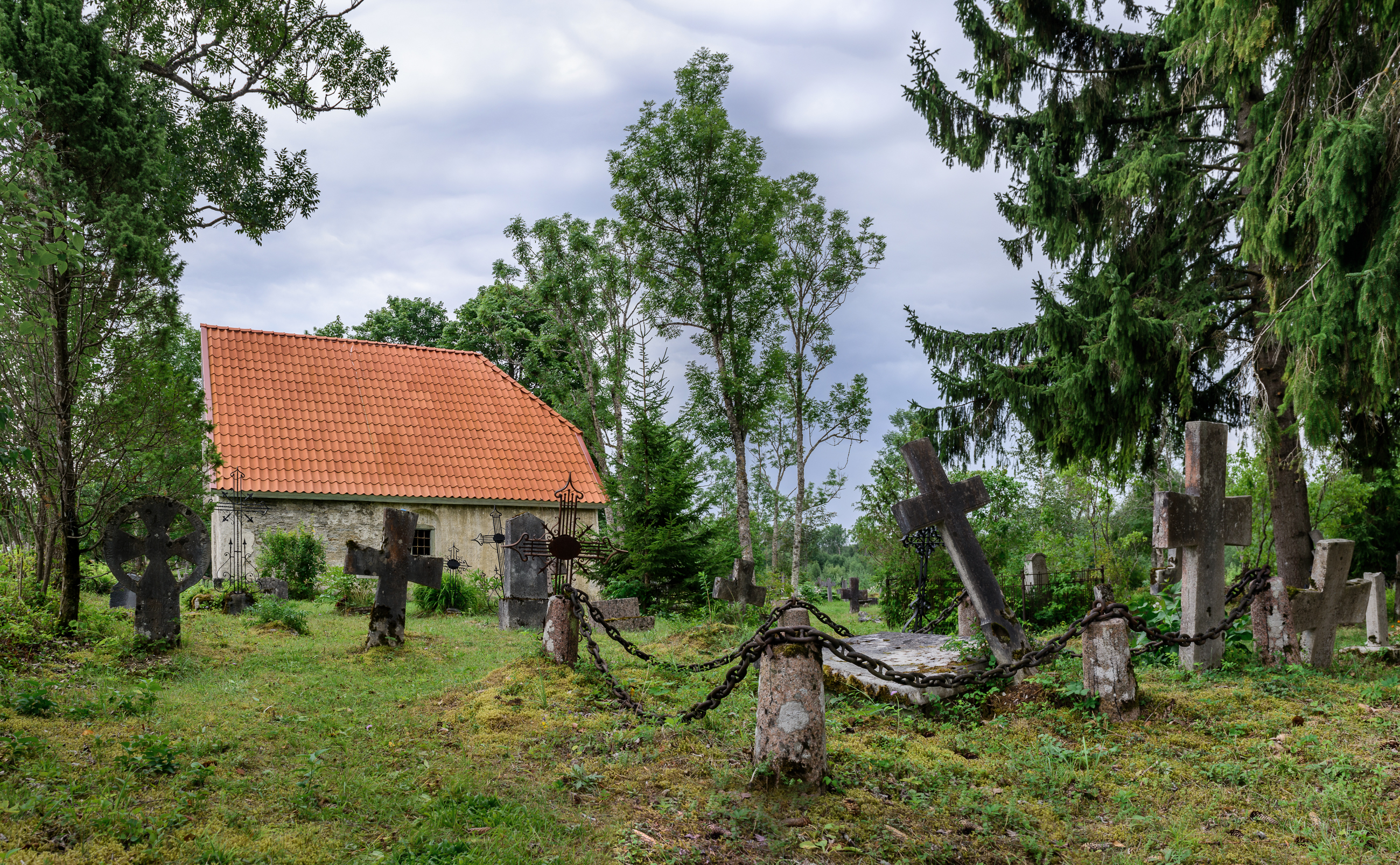 Vilivalla village cemetery in Padise Parish, Harju County in northern Estonia. Cemetery has 196 limestone gravestones, 97 iron crosses and some more memorial stones from granite. Oldest dated cross was set up in the year of 1638. Vihterpalu manor owner Gustav von Knorring (1785-1852) and his wife are burried in the cemetery chapel, that was erected in 19th century.